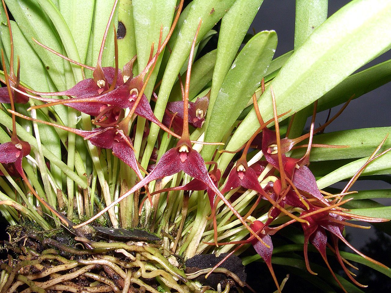 Masdevallia herradurae - flowers